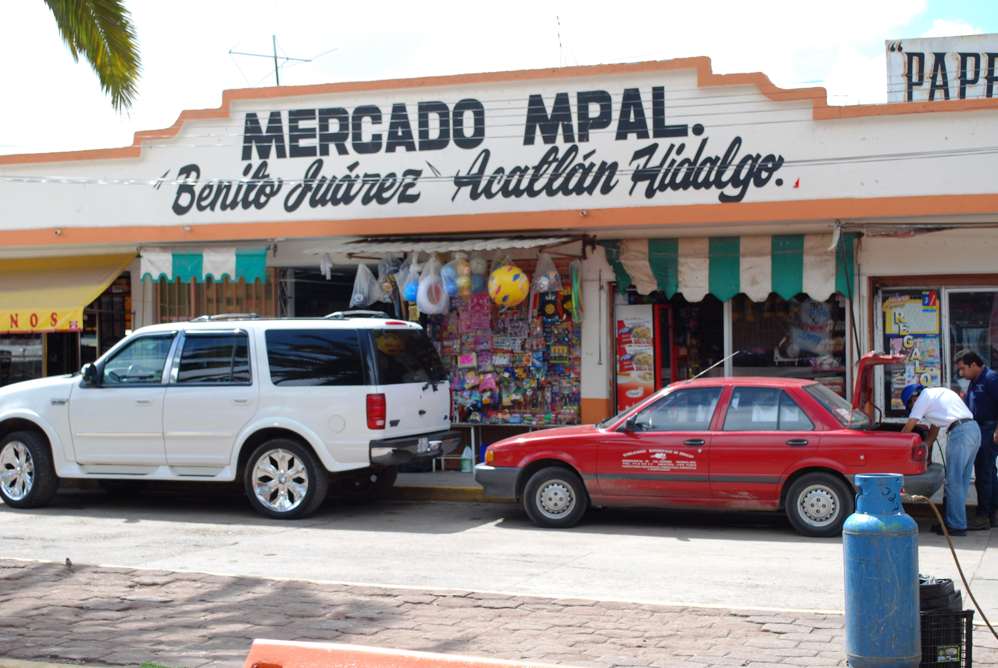 Municpal market of Acatlán, Hidalgo, Mexico